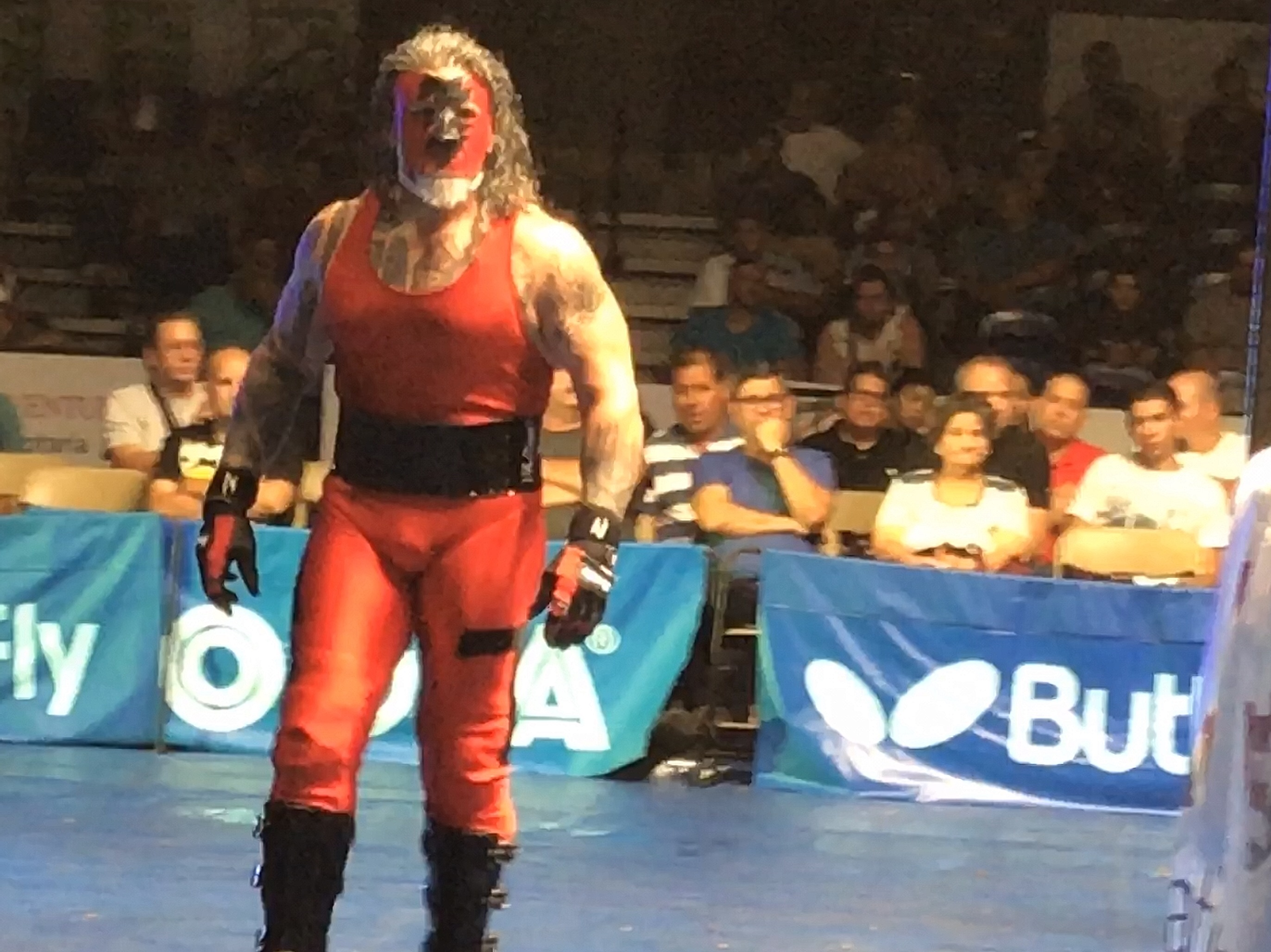 Professional wrestler Thunder at the World Wrestling Council's Aniversario 2018 event.